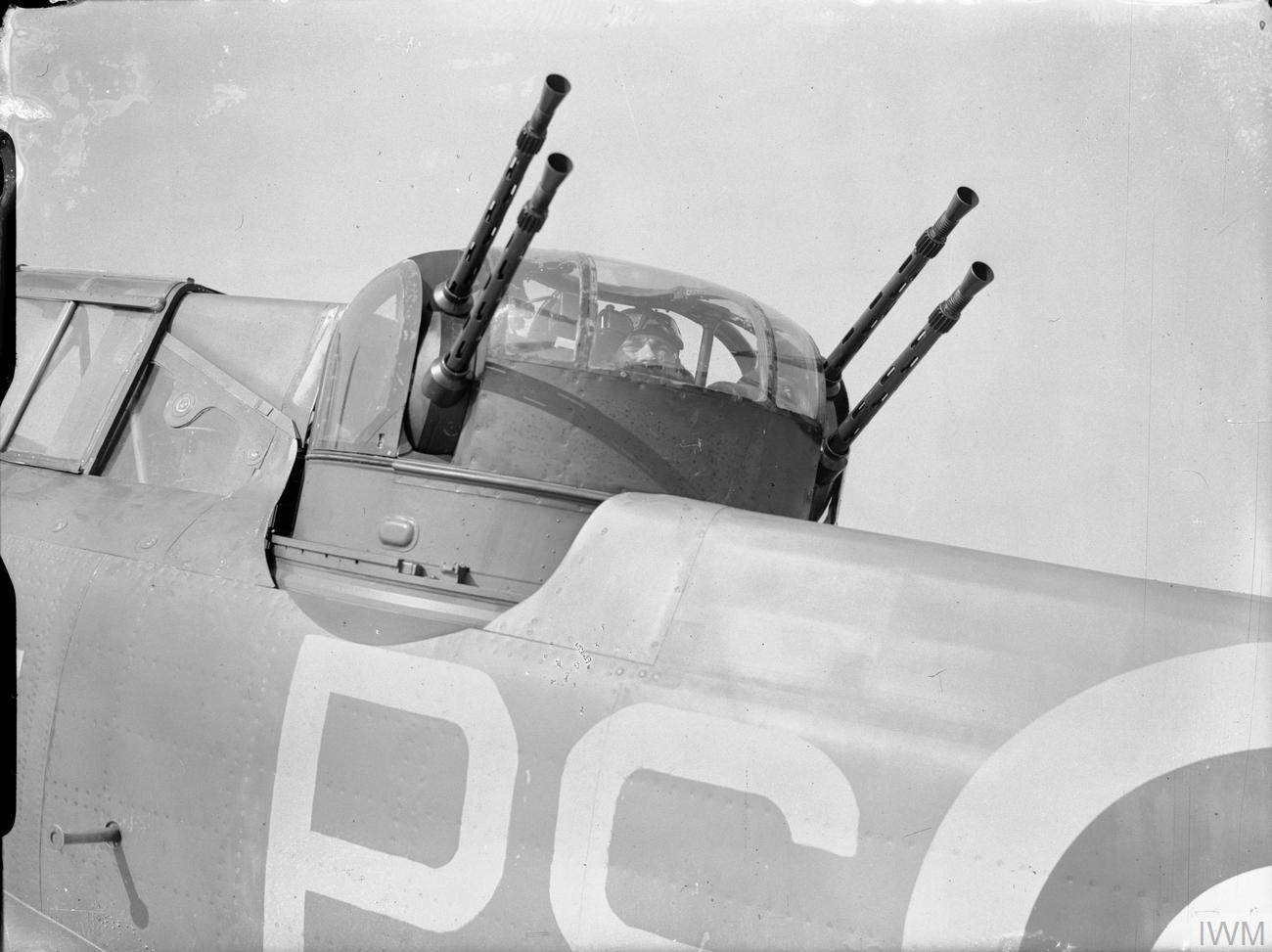 An air gunner in the turret of a Boulton Paul Defiant Mark I of No. 264 Squadron RAF, trains his four .303 Browning machine-guns skywards at Kirton-in-Lindsey, Lincolnshire.